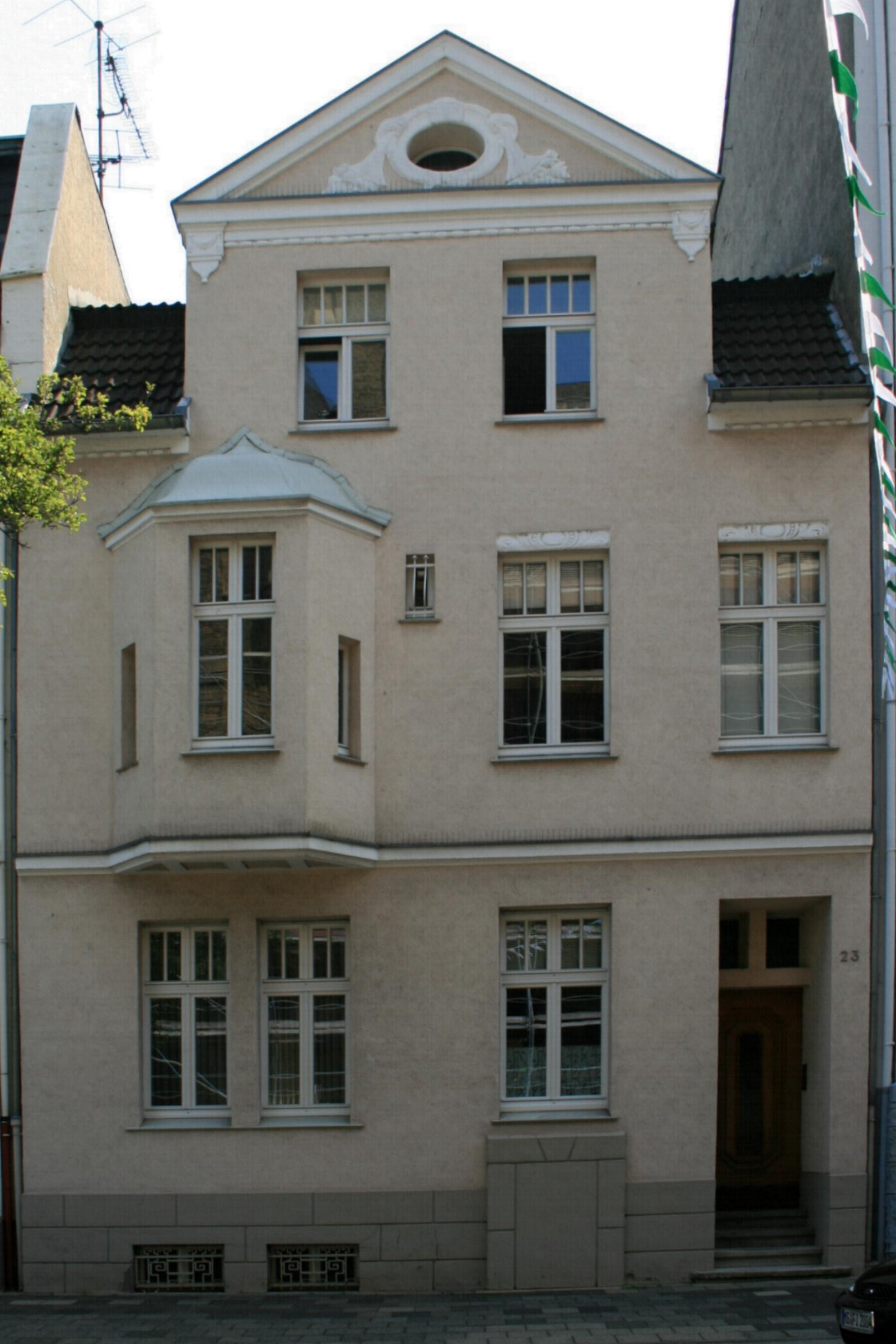 Cultural heritage monument No. R 036 in Mönchengladbach